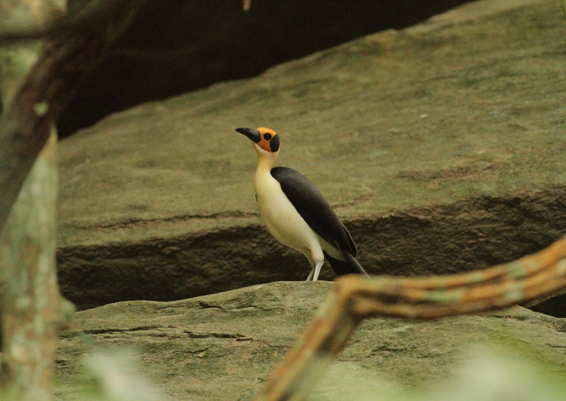 Picathartes gymnocephalus (Picathartidae) (White-necked Rockfowl), Ashanti, Ghana